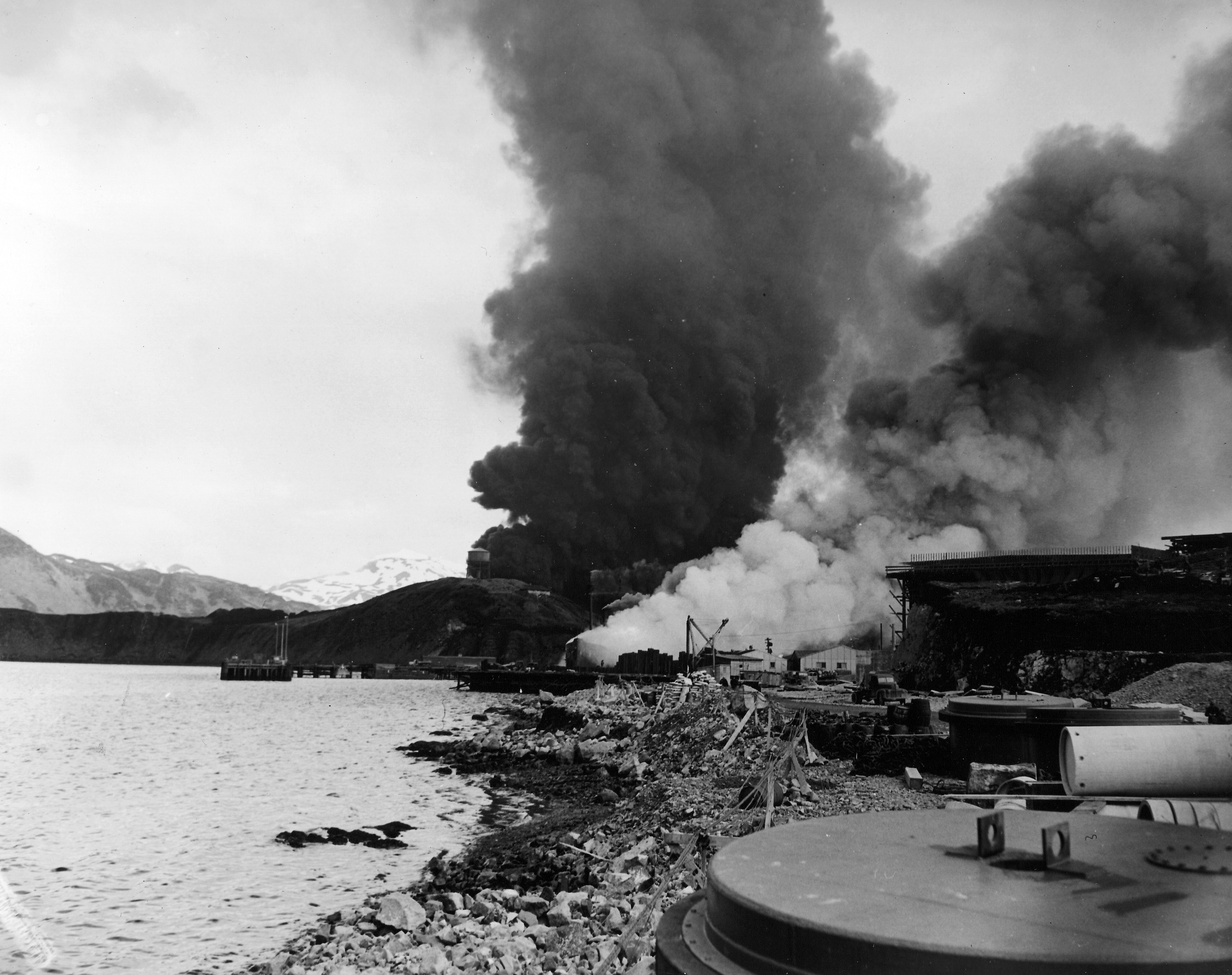 The beached SS Northwestern and oil tanks burning at Dutch Harbor, Alaska (USA), during the Japanese attack on 4 June 1942.